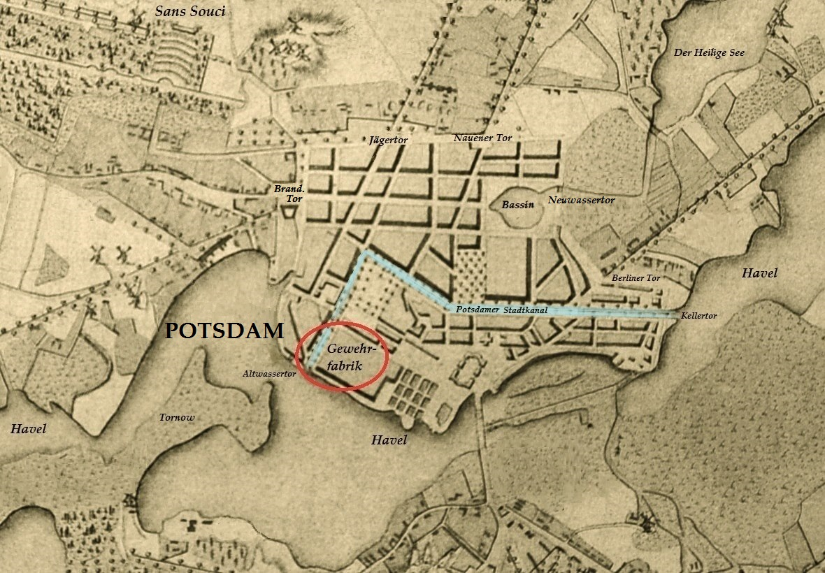 Map of Potsdam 1785, Maasstab von 400 Ruthen (1 : 18.600)